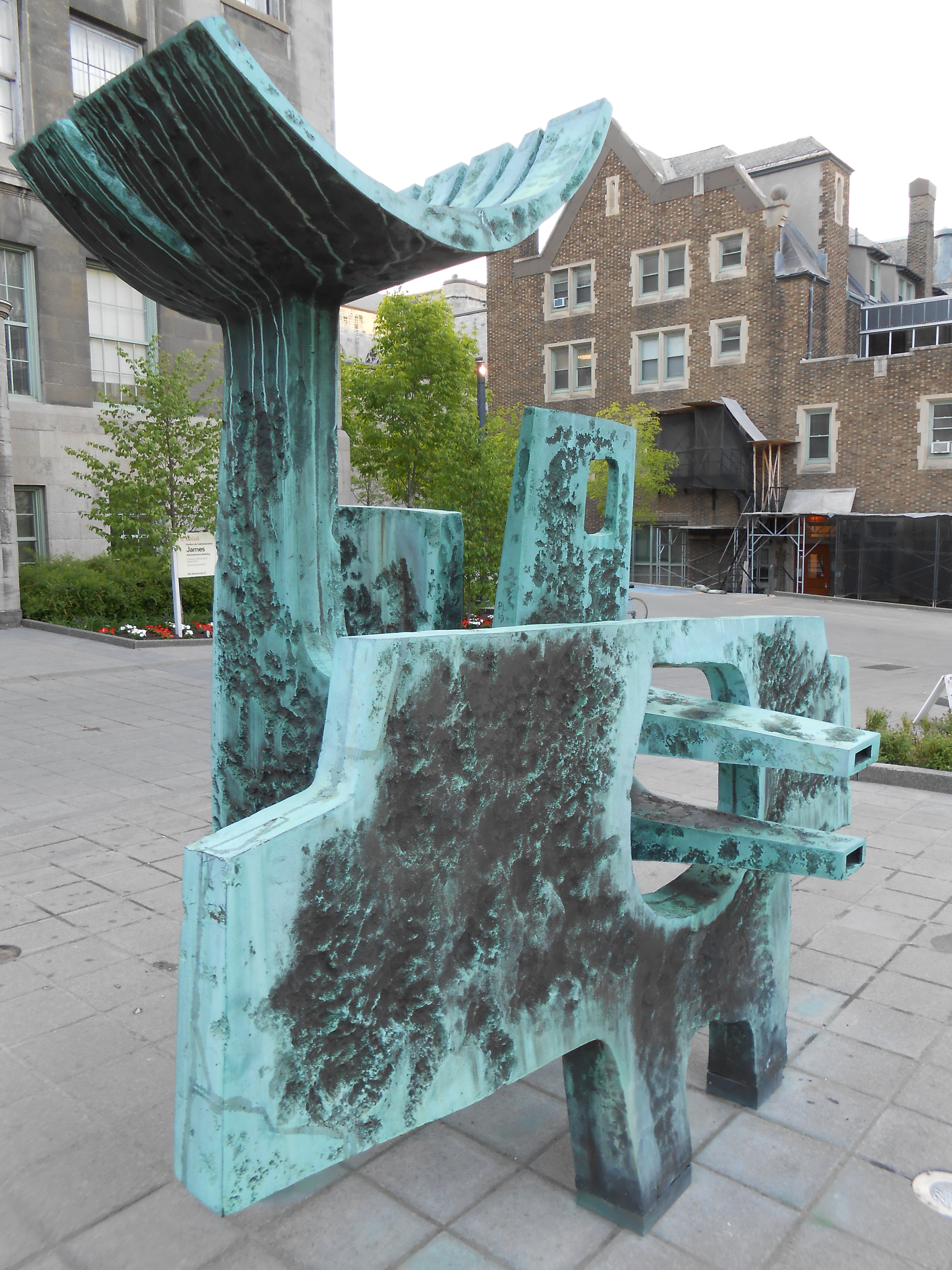 Polypède (1967), by Charles Daudelin, Milton Gates, McGill University, Montreal